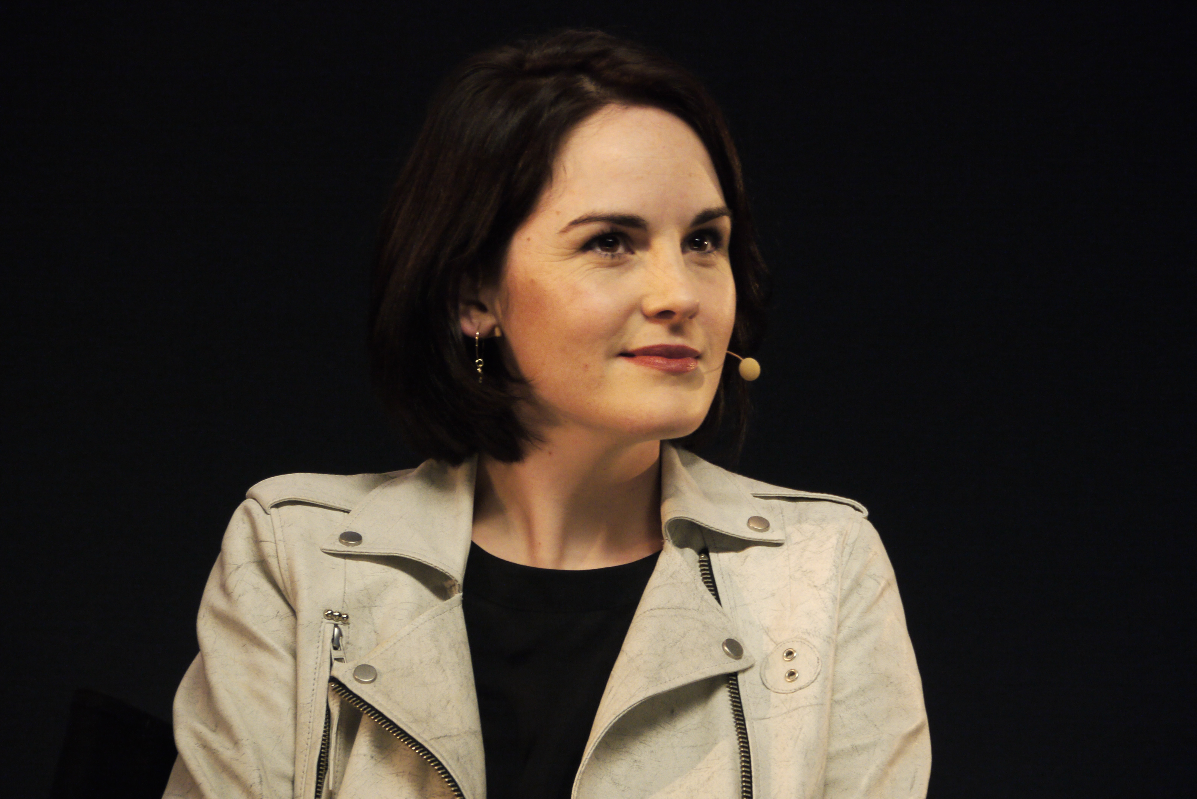 Michelle Dockery at a publicity event promoting Downton Abbey, 2013.